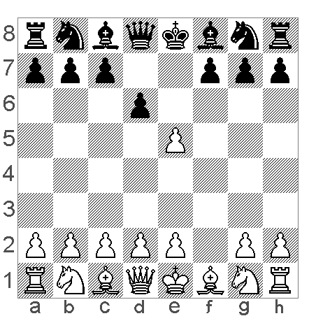 chess diagram From gambit Source: CBlight + my processing